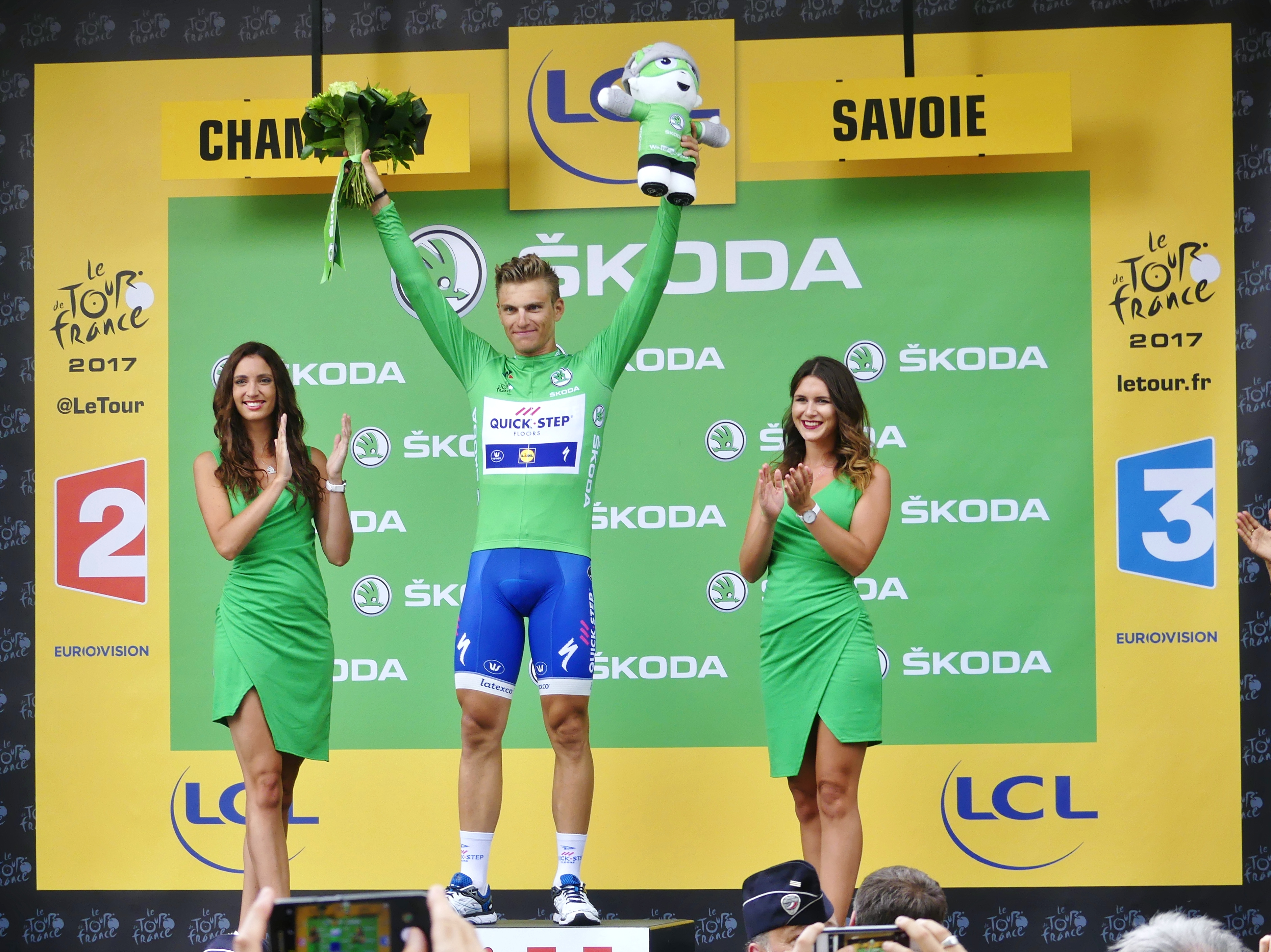 Sight of Marcel Kittel wearing the green jersey as the best sprinter (points classification), on the podium at Chambéry (Savoie, France) at the end of the 9th step of Tour de France 2017.